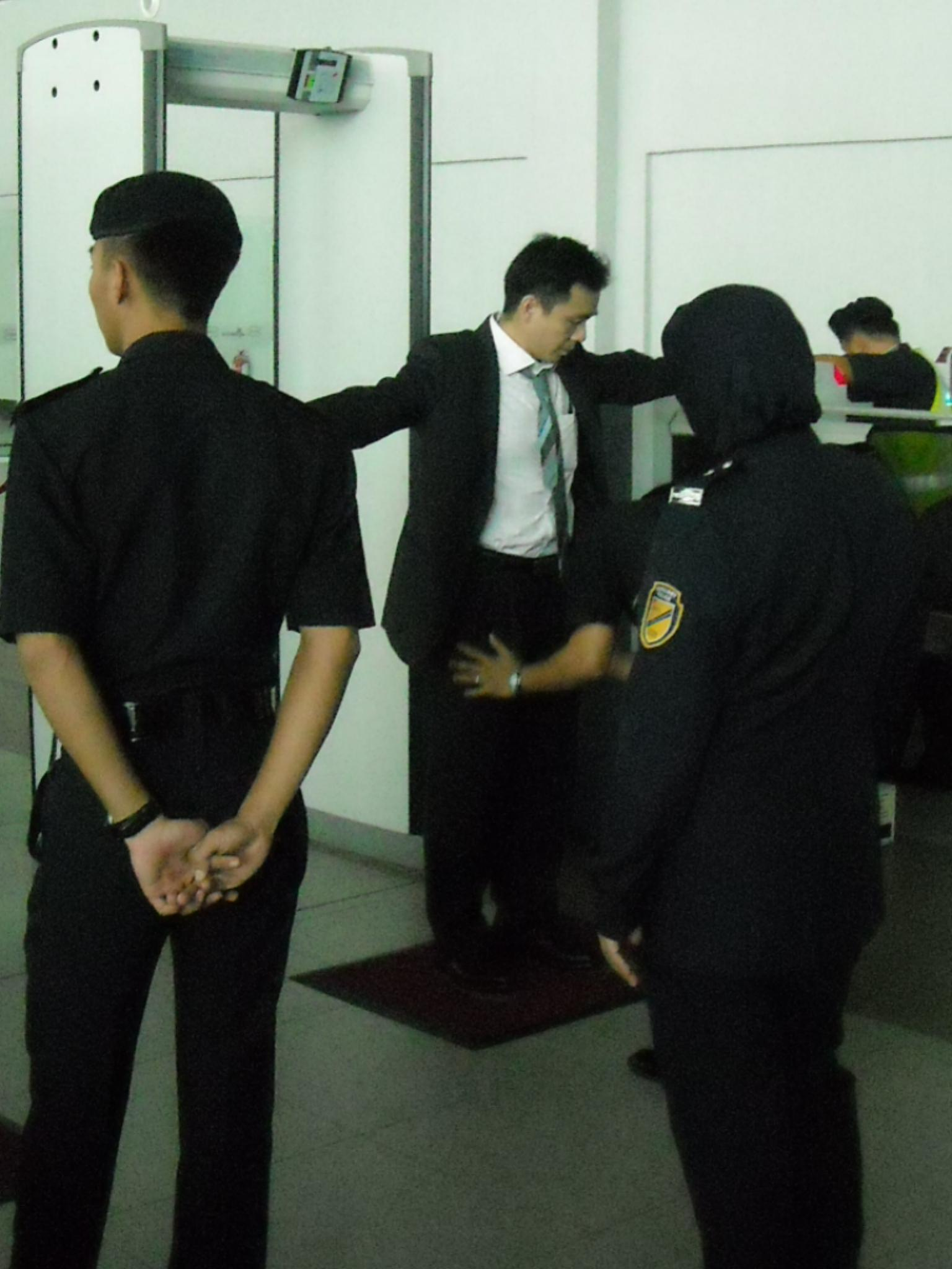 An Malaysian Airport auxiliary policemen was examining an one passenger to preventing the dangerous goods brought out into an aircraft as watched by auxiliary policewomen. Taken by me at Kota Kinabalu International Airport, Sabah, Malaysia.